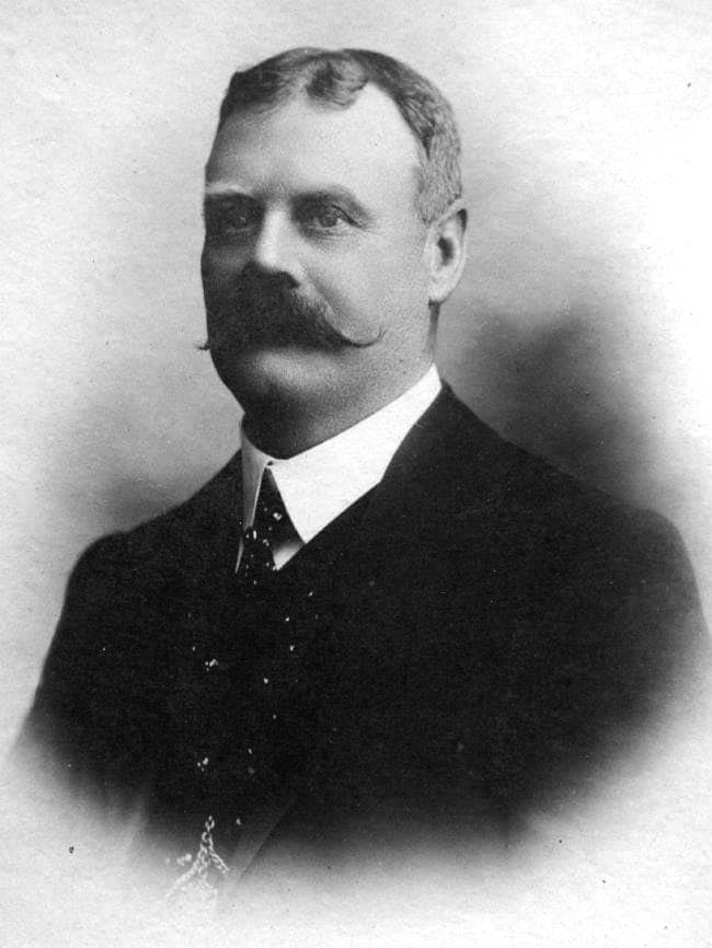 Portrait of Thomas W. Sherrin, founder of the Sherrin Ltd., the main manufacturer of Australian rules footballs.